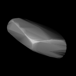 3D convex shape model of 1040 Klumpkea, computed using light curve inversion techniques. J. Hanuš, J. Ďurech, M. Brož, B. D. Warner (June 2011). "A study of asteroid pole-latitude distribution based on an extended set of shape models derived by the lightcurve inversion method". Astronomy and Astrophysics 530: A134. ISSN 0004-6361. arXiv